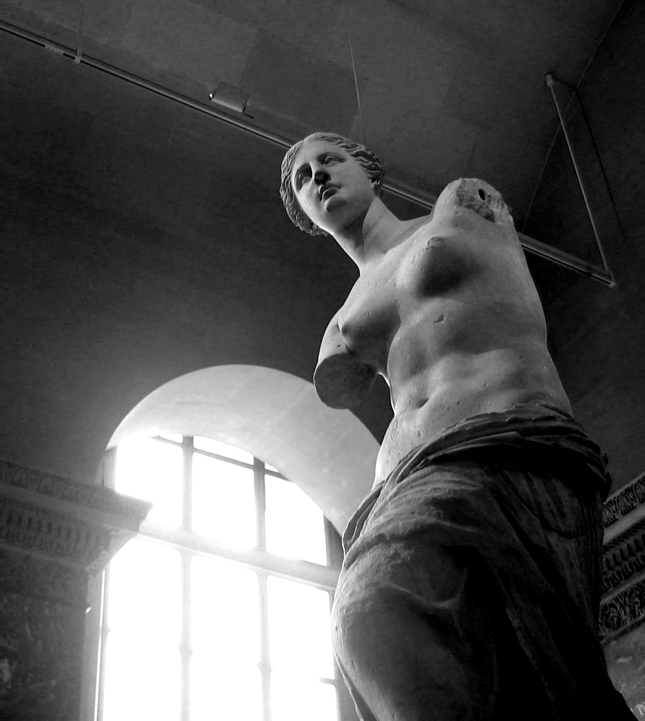 So-called “Venus de Milo” (Aphrodite from Melos), detail of the bust showing the difference of surface between the two arm sections: right one smooth; left one rough with a mortice. Parian marble, ca. 130-100 BC? Found in Melos in 1820.